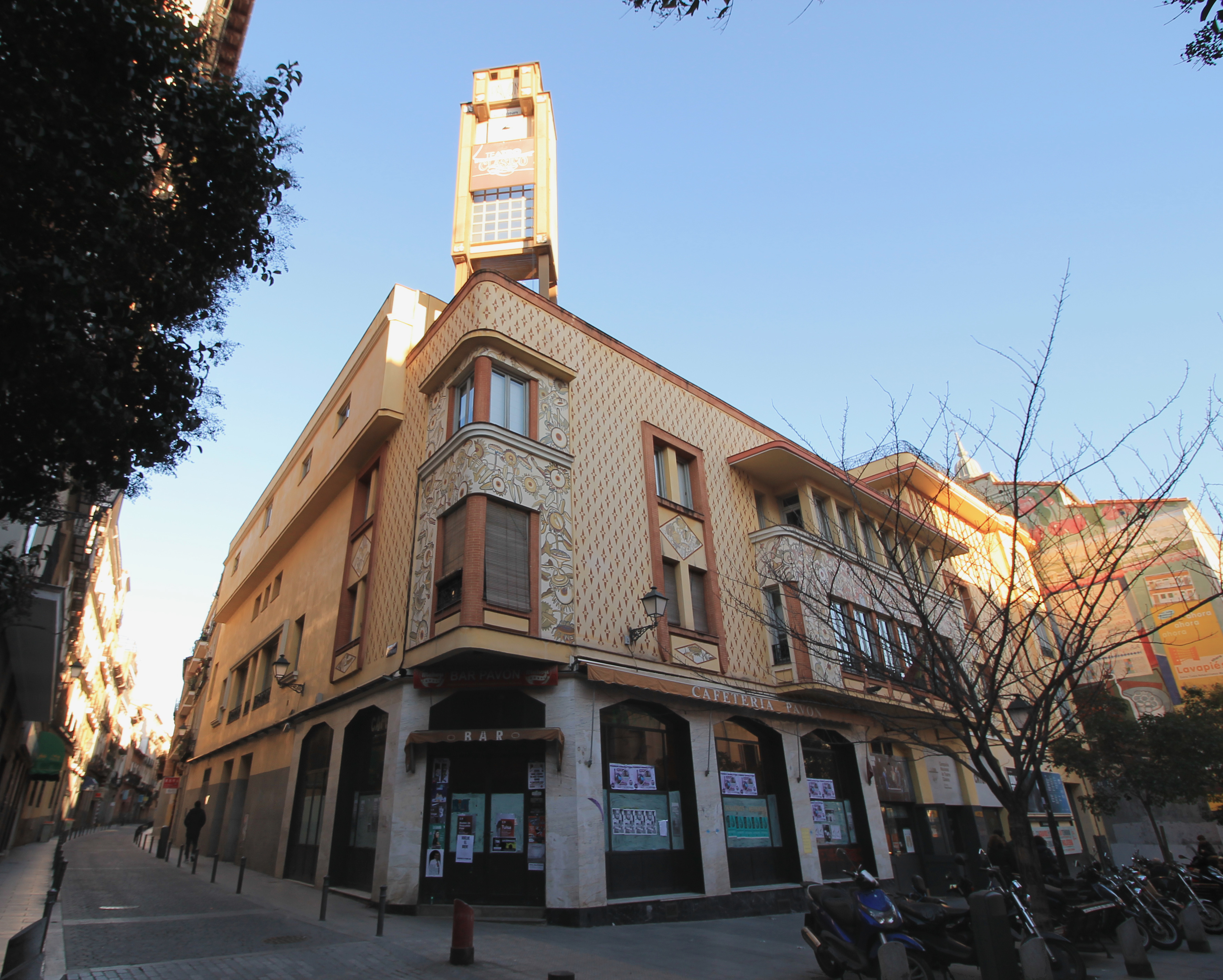 Façade of Teatro Pavón (a theater) in Madrid (Spain).